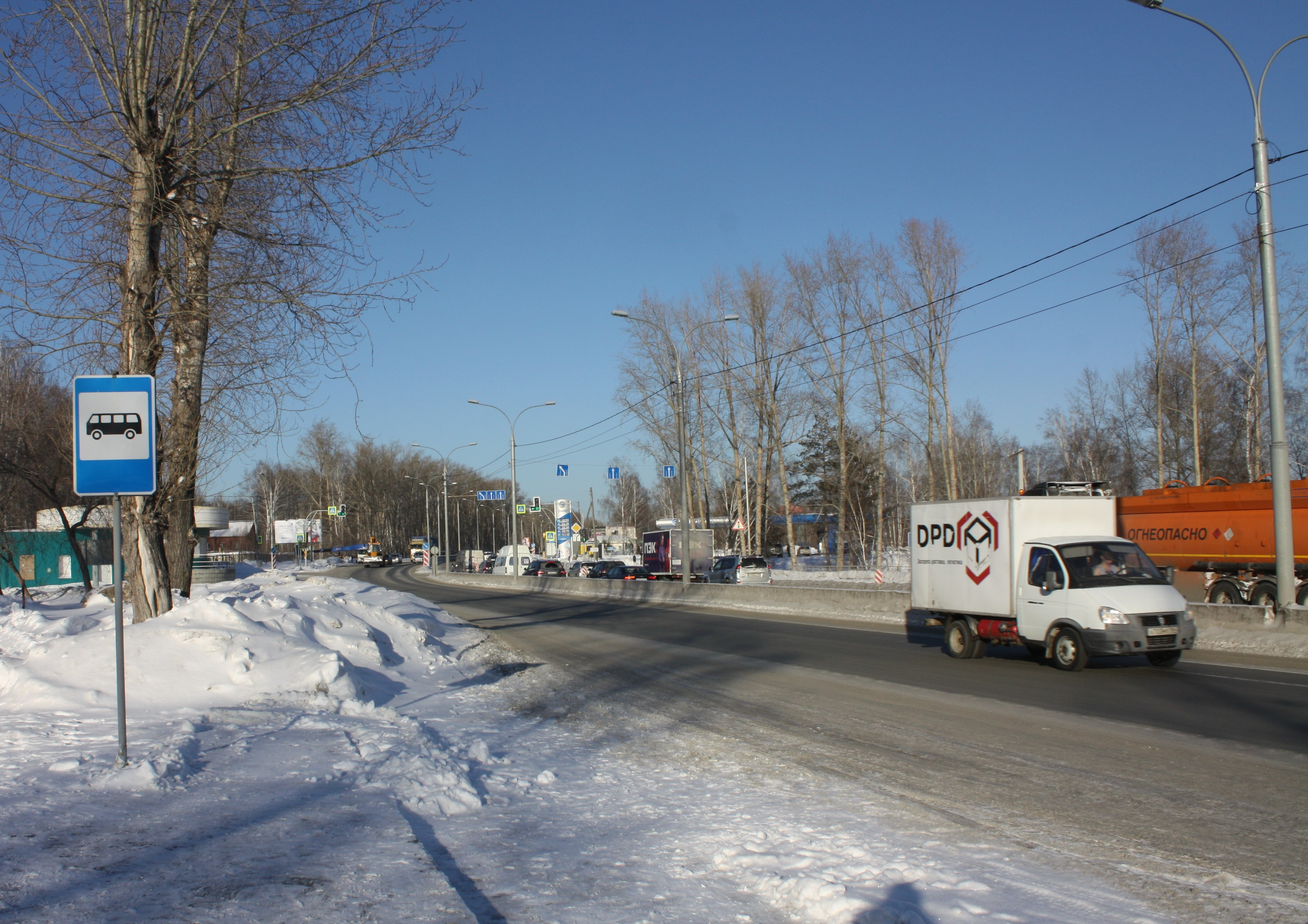 1st Mochishchenskoye Highway, Zayeltsovsky City District, Novosibirsk.